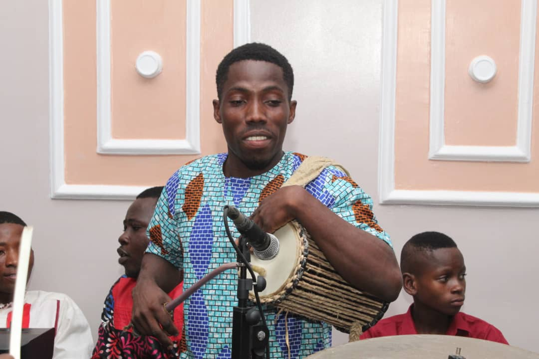 Ayangalu means (talking drummer) ,sometimes it is shortened as AYAN... Ayangalu is an ancient god of talking drum... Any one born into his lineage is called Ayan... In this picture the Ayan is playing the GANGAN. This pictures shows how happy an AYANGALU is while playing the talking drum GANGAN... He must always be happy no matter what. Because that is what brings out the beauty of his Words. Yorùbá: Àwa là ń lu ìlù Ìlù dákun málù wá. This is an image with the theme "Play" from: Nigeria